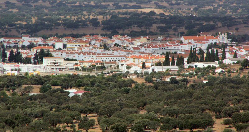 Alter do Chão is a municipality in Portugal with a total area of 362.0 km² and a total population of 3,666 inhabitants. The municipality is composed of 4 parishes, and is located in the District of Portalegre.